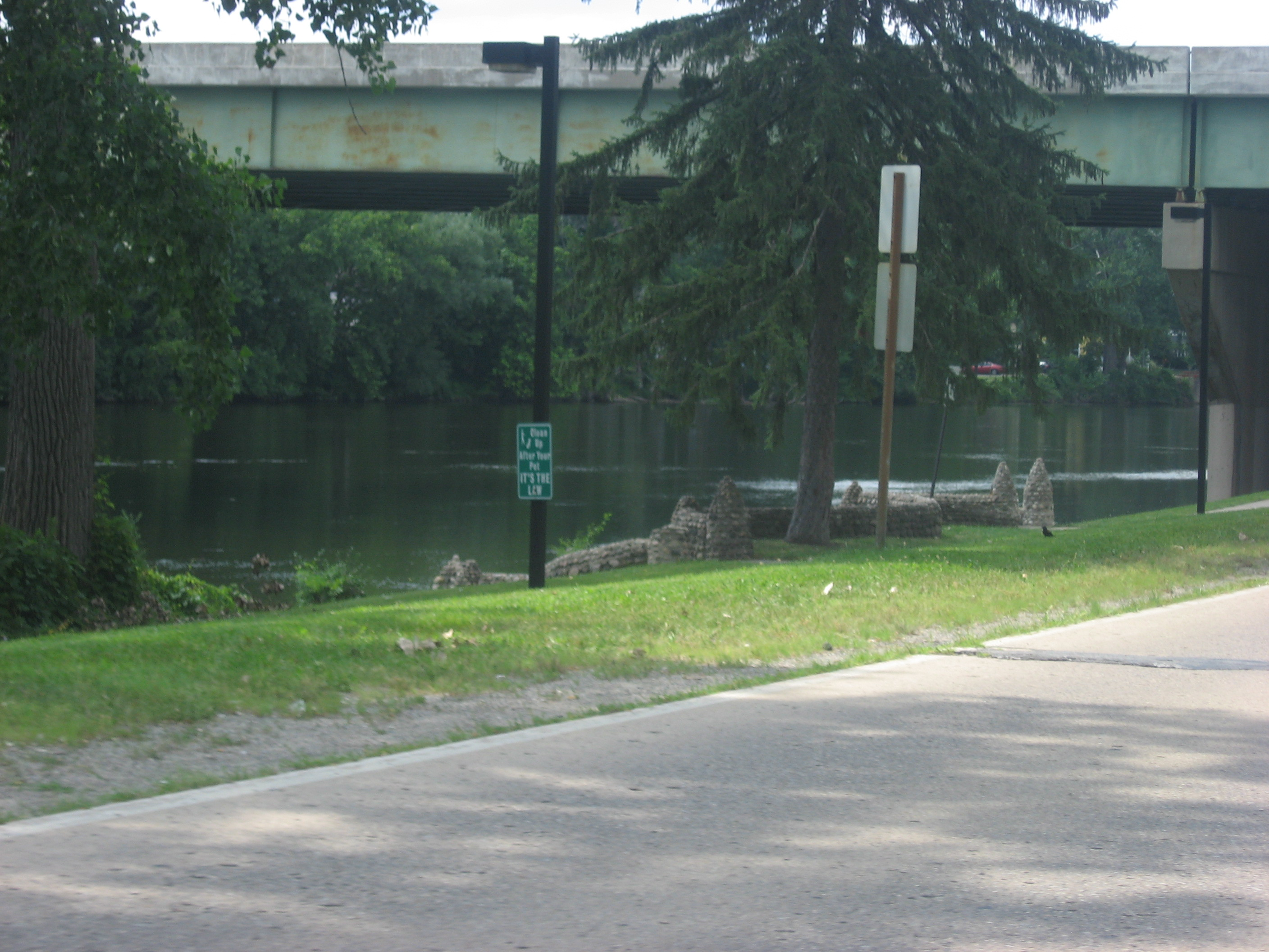 A section of the Northside Boulevard Riverwall, located between Northside Boulevard and the St. Joseph River in South Bend, Indiana, United States. Built in 1935, it is listed on the National Register of Historic Places.